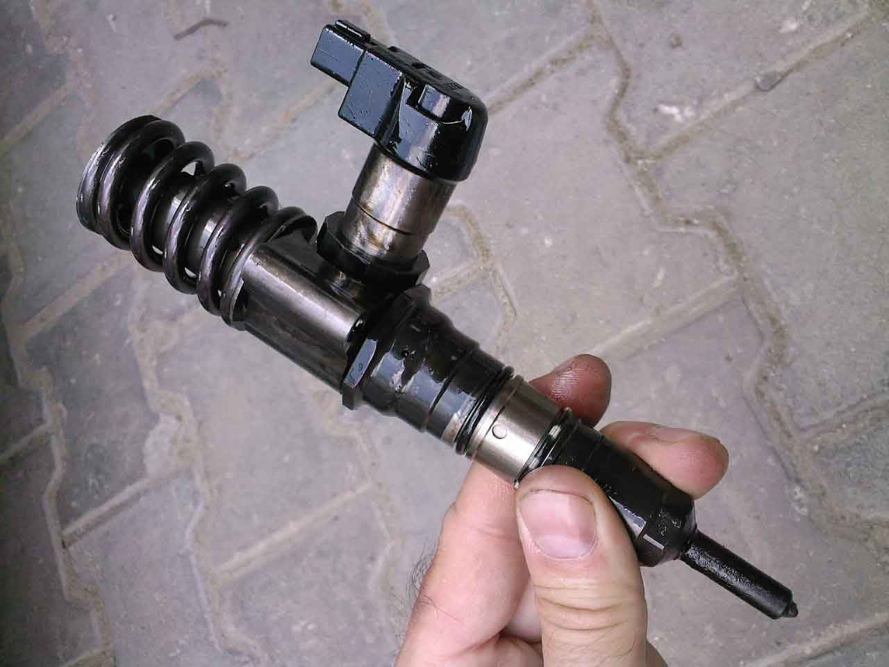 bomb inyector